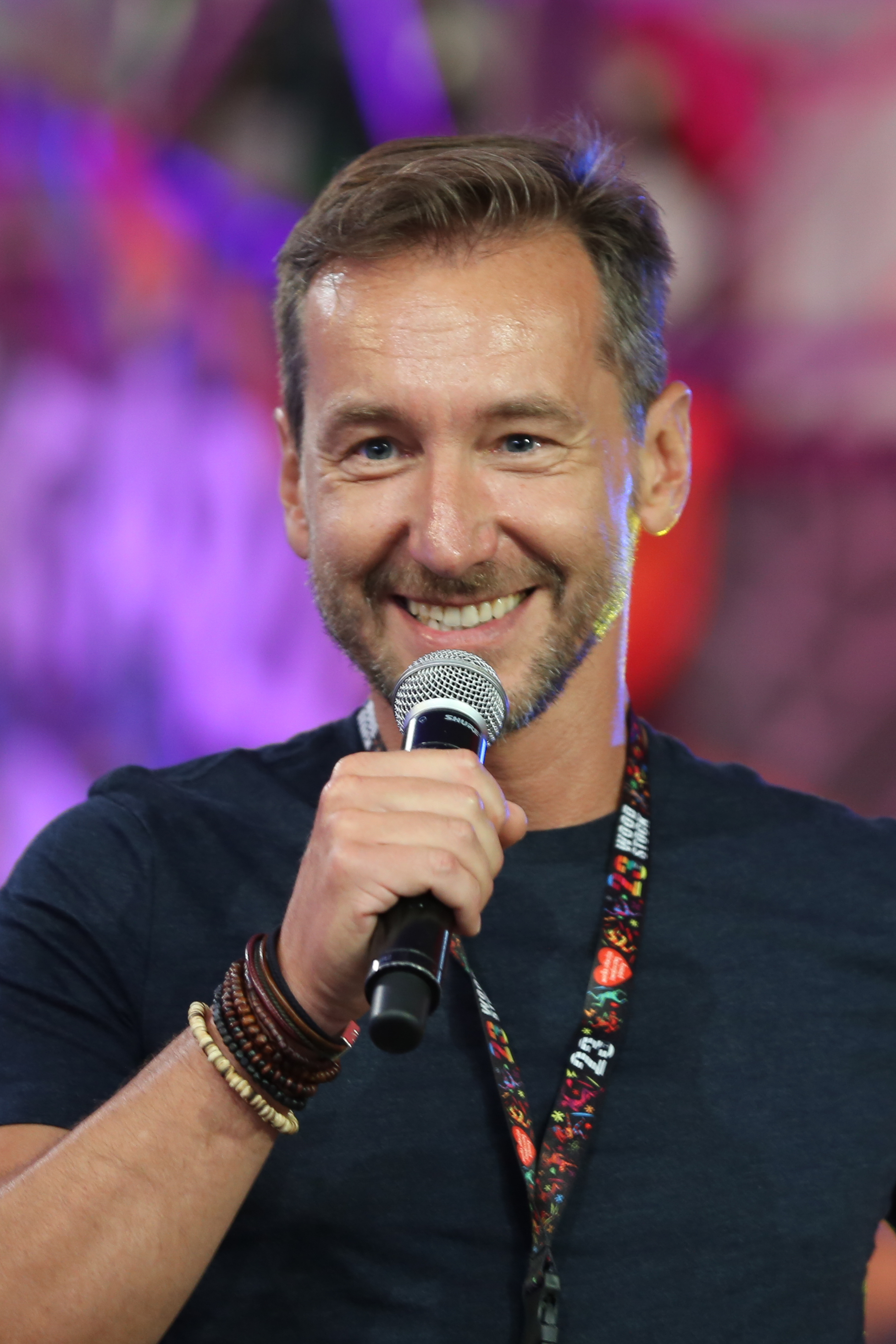 Piotr Kraśko at Przystanek Woodstock in 2017.